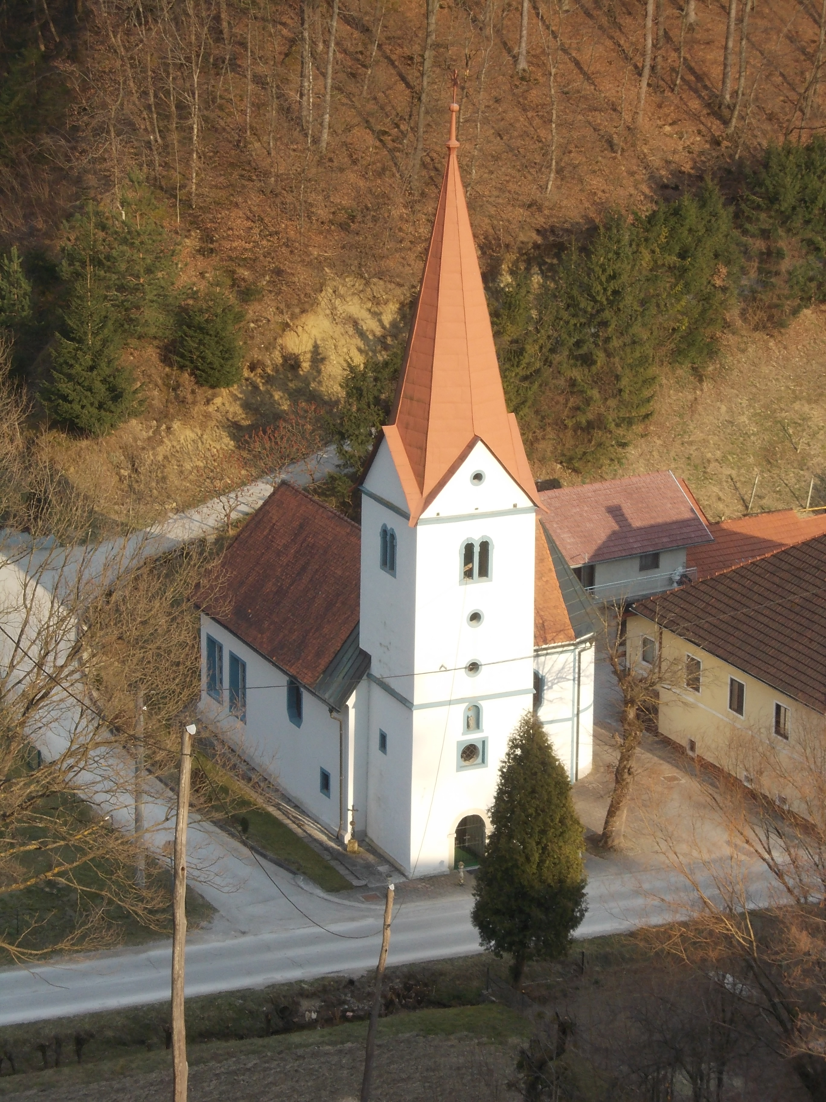 Saint Nicholas Church, Lemberg pri Šmarju